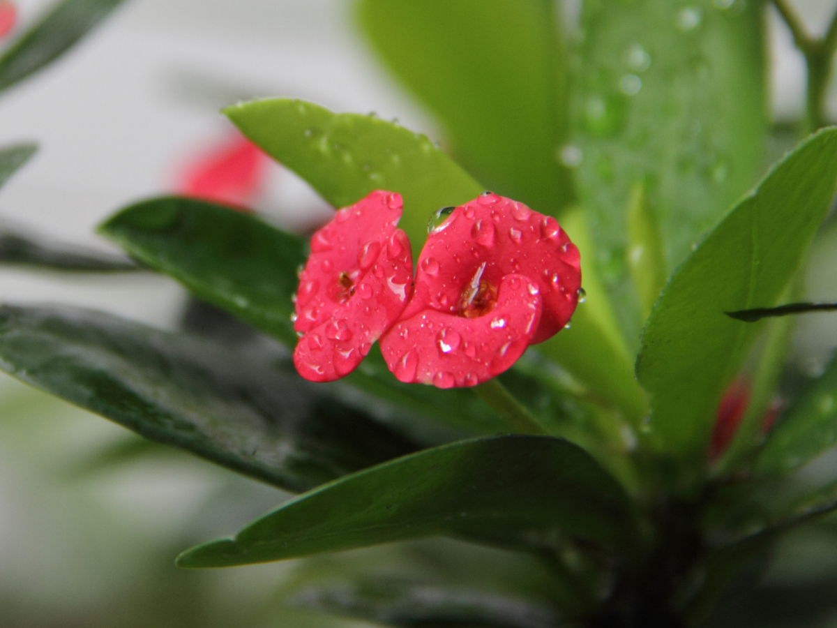 I am a scrambling shrub with many branches. I am drought-tolerant and thus I don't need much watering. My flower language speaks "being stubborn but faithful, gentle and loyal, brave and refined". [1] Made into medicine, I am effective in treating contusions, strains, hepatitis, ascites and scalds.